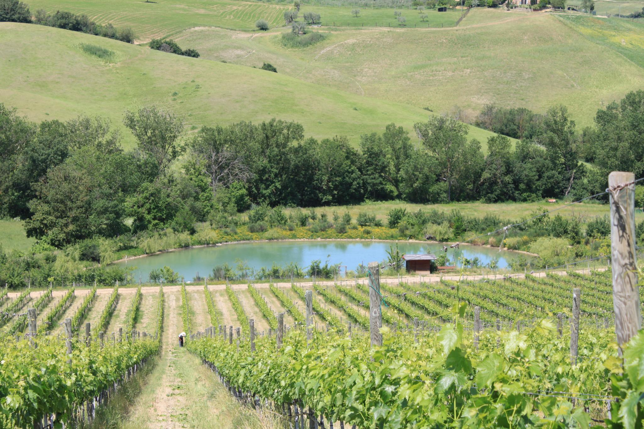 A vineyard in the Italian wine region of Montepulciano, Tuscany.